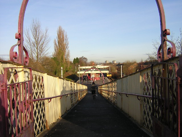 Muirend railway station, Glasgow, Scotland